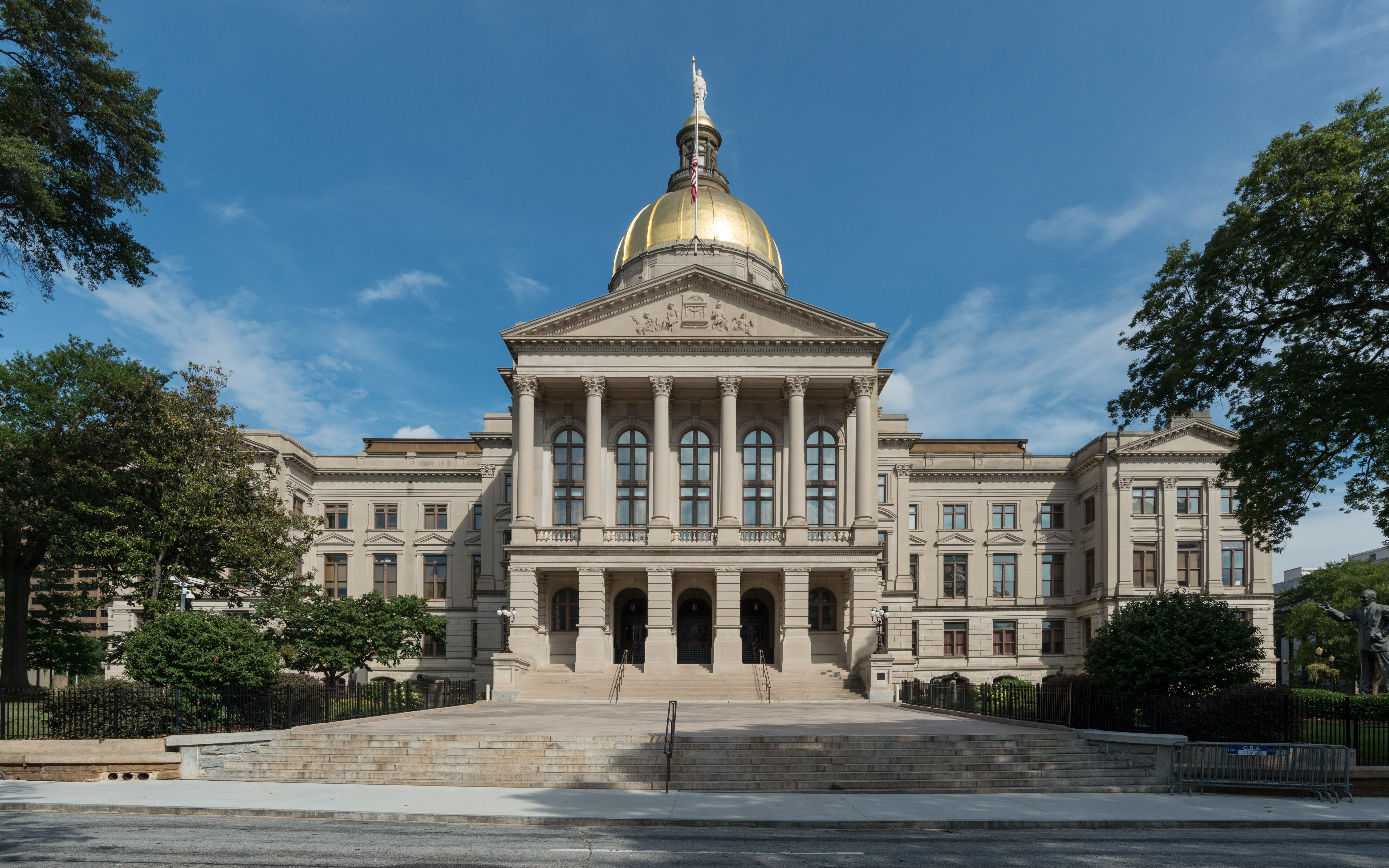 A northwest view of the Georgia State Capitol, Atlanta